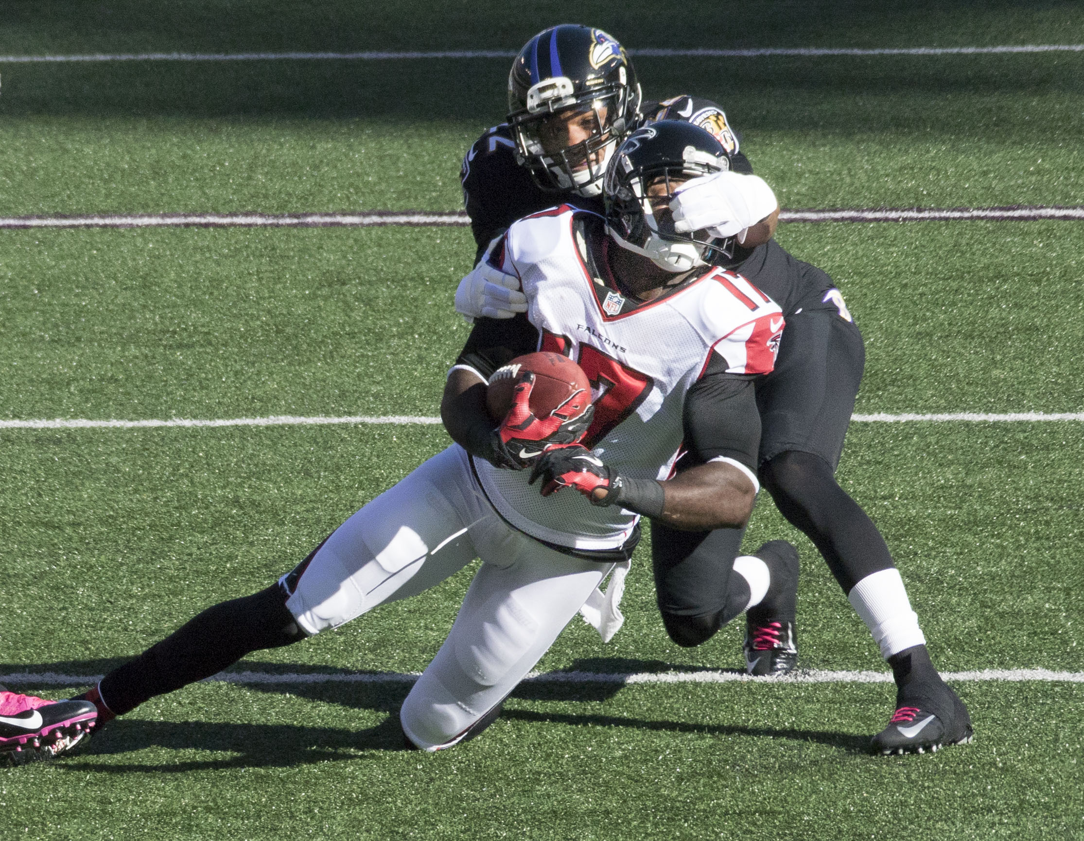 Facemask penalty on Jimmy Smith, Baltimore Ravens cornerback.